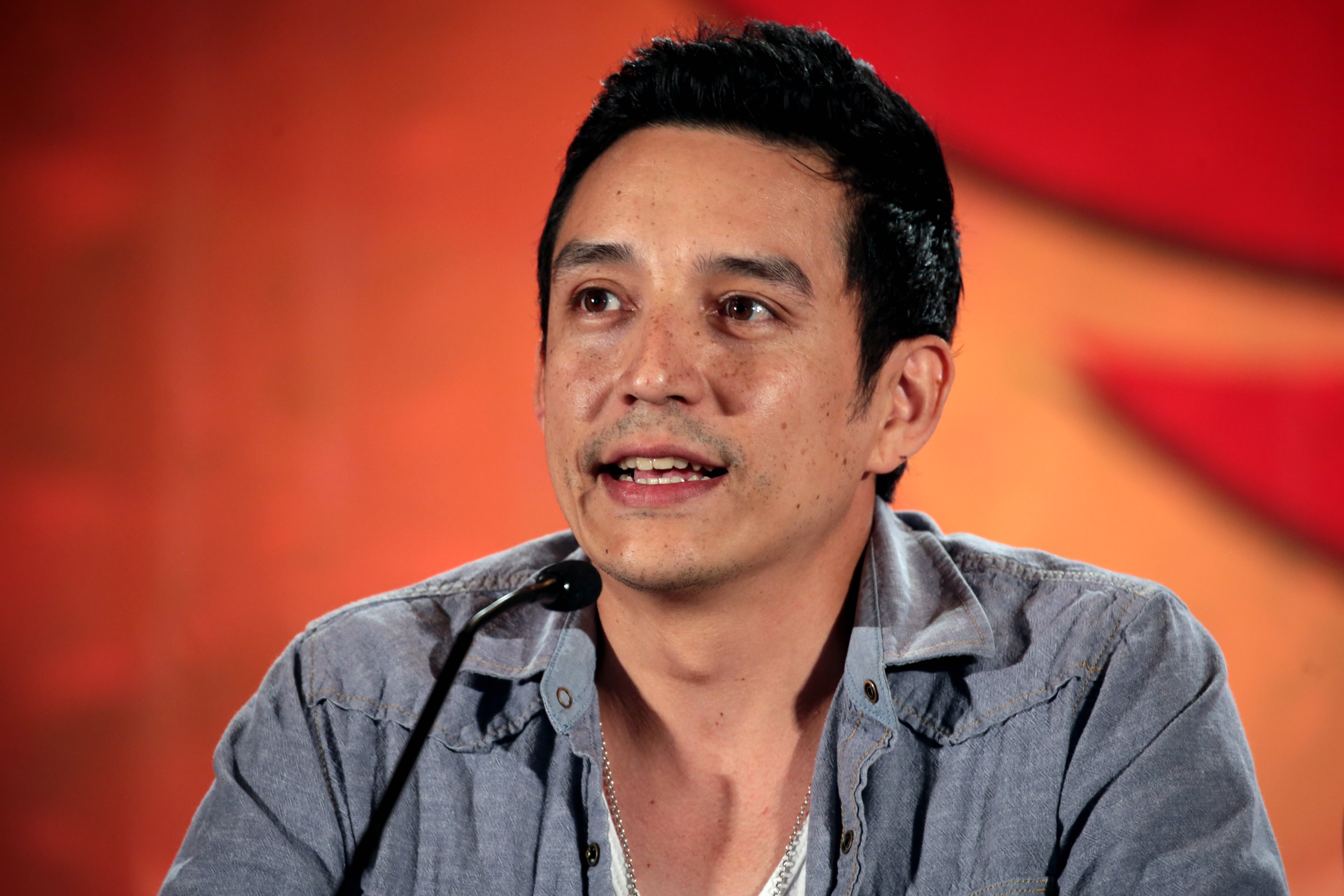 Gabriel Luna speaking at the 2017 Phoenix Comicon at the Phoenix Convention Center in Phoenix, Arizona.